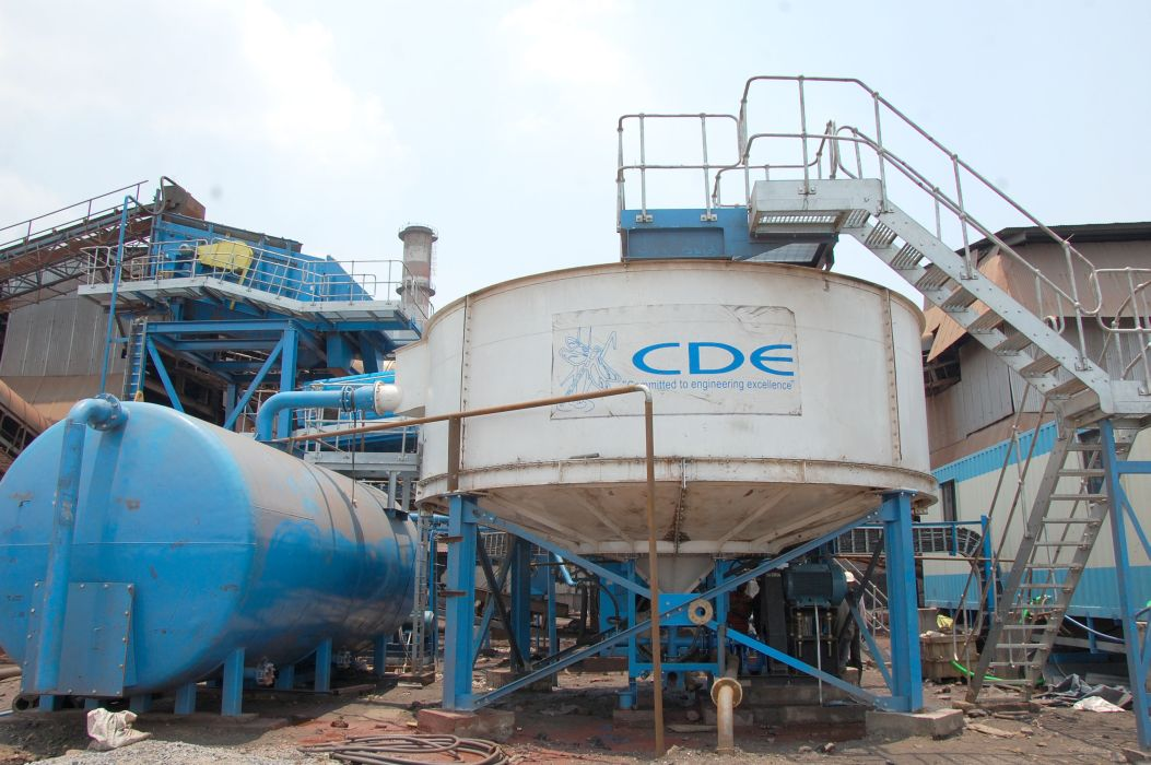 Aquacycle thickener